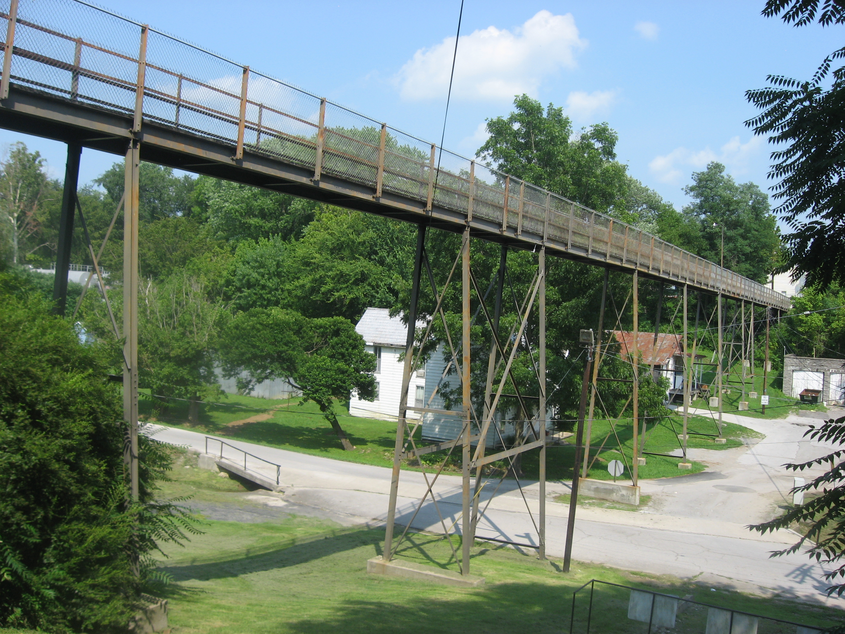 Southern side of the Goose Creek Foot Bridge, which connects Court and Depot Streets in Greensburg, Kentucky, United States. Built in 1928, it is listed on the National Register of Historic Places.